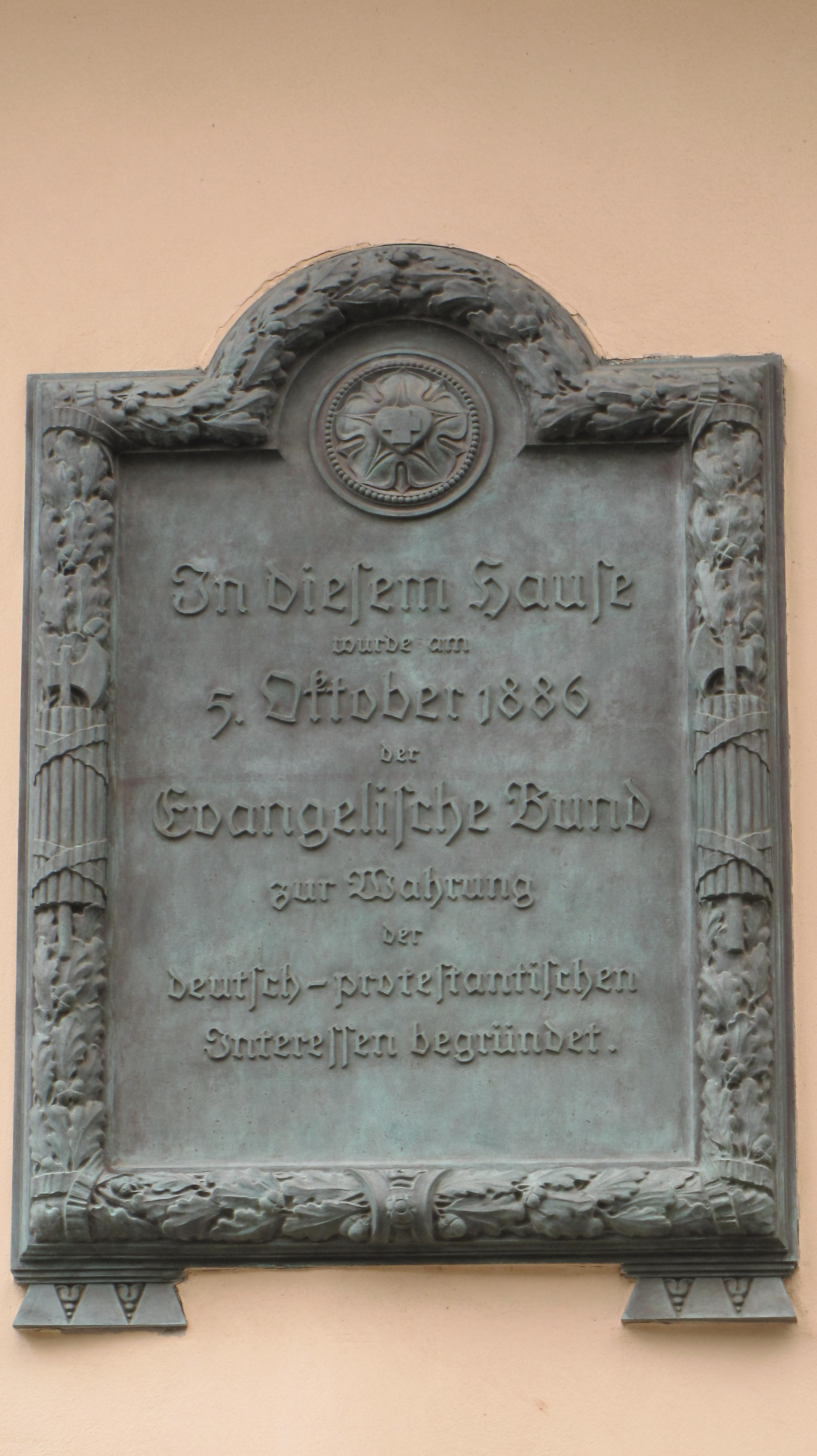 Plaque commemorating the founding of the Evangelischer Bund in Erfurt, Predigerstr. 10